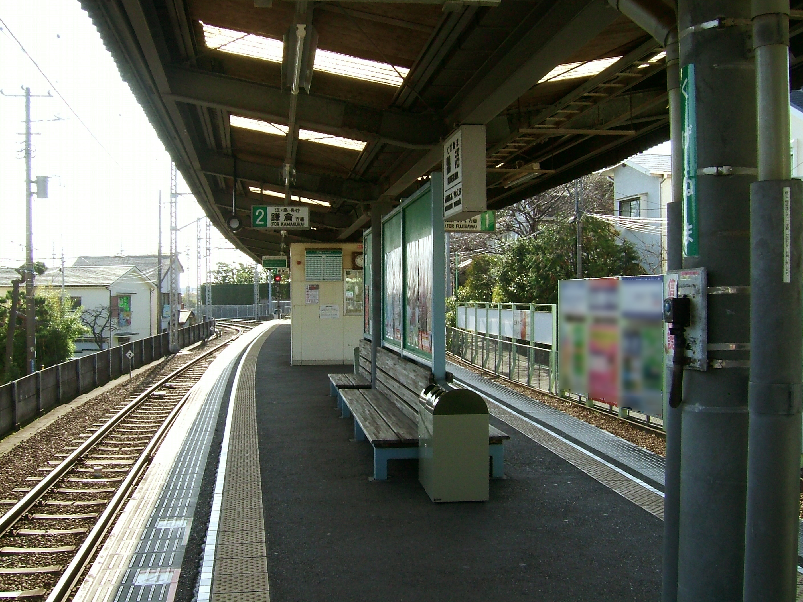 The platform at Kugenuma Station on the Enoden Line in Fujisawa city, Kanagawa prefecture, Japan